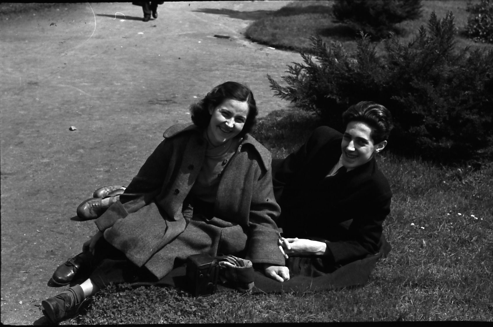 Flóra Kádár & György Fischer